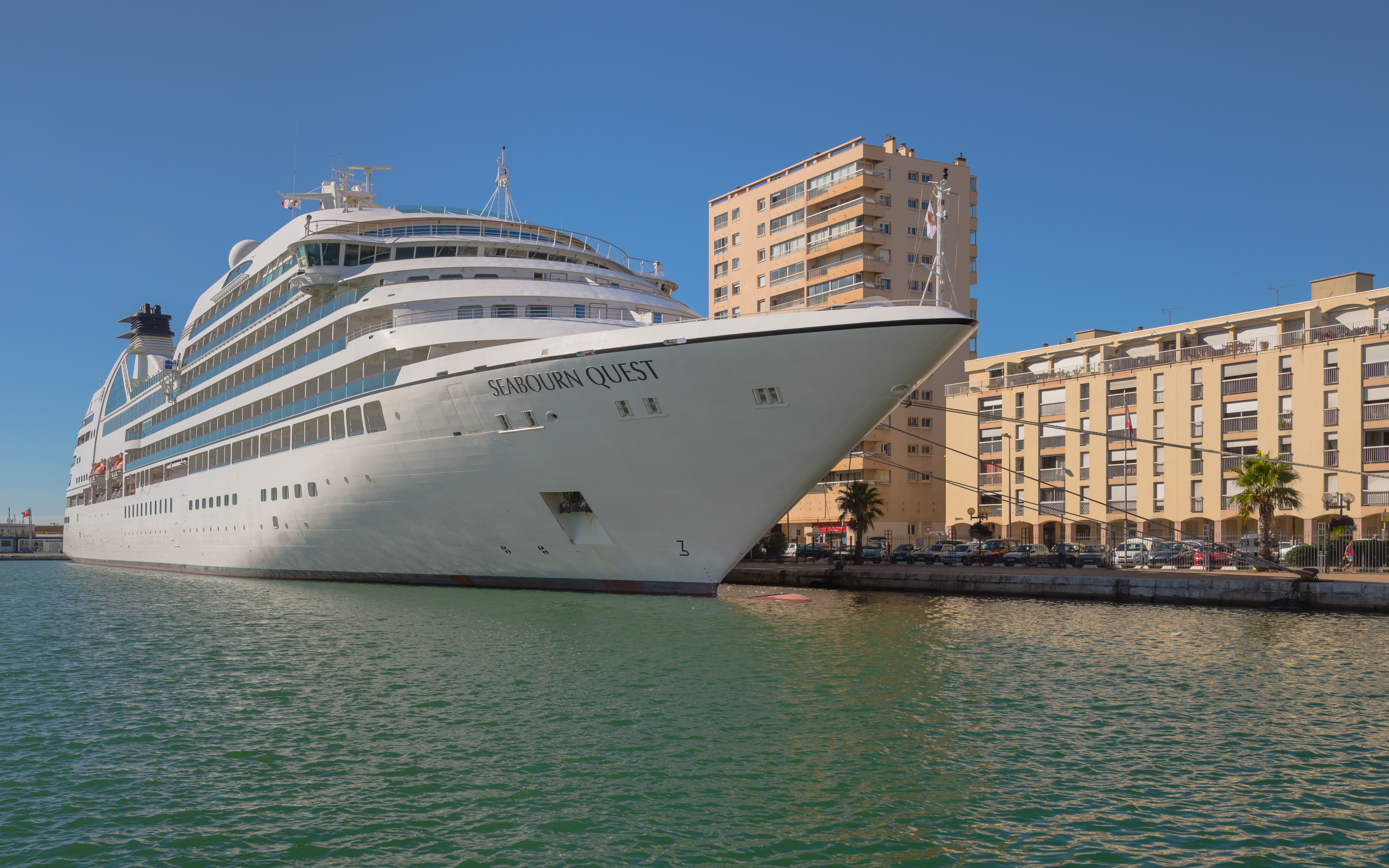 The italian ship MV Seabourn Quest (2011), a cruise ship of 11 decks, of the U.S. company: Seabourn Cruise Line; moored at the Algiers Embankment. Sète, Hérault, France.